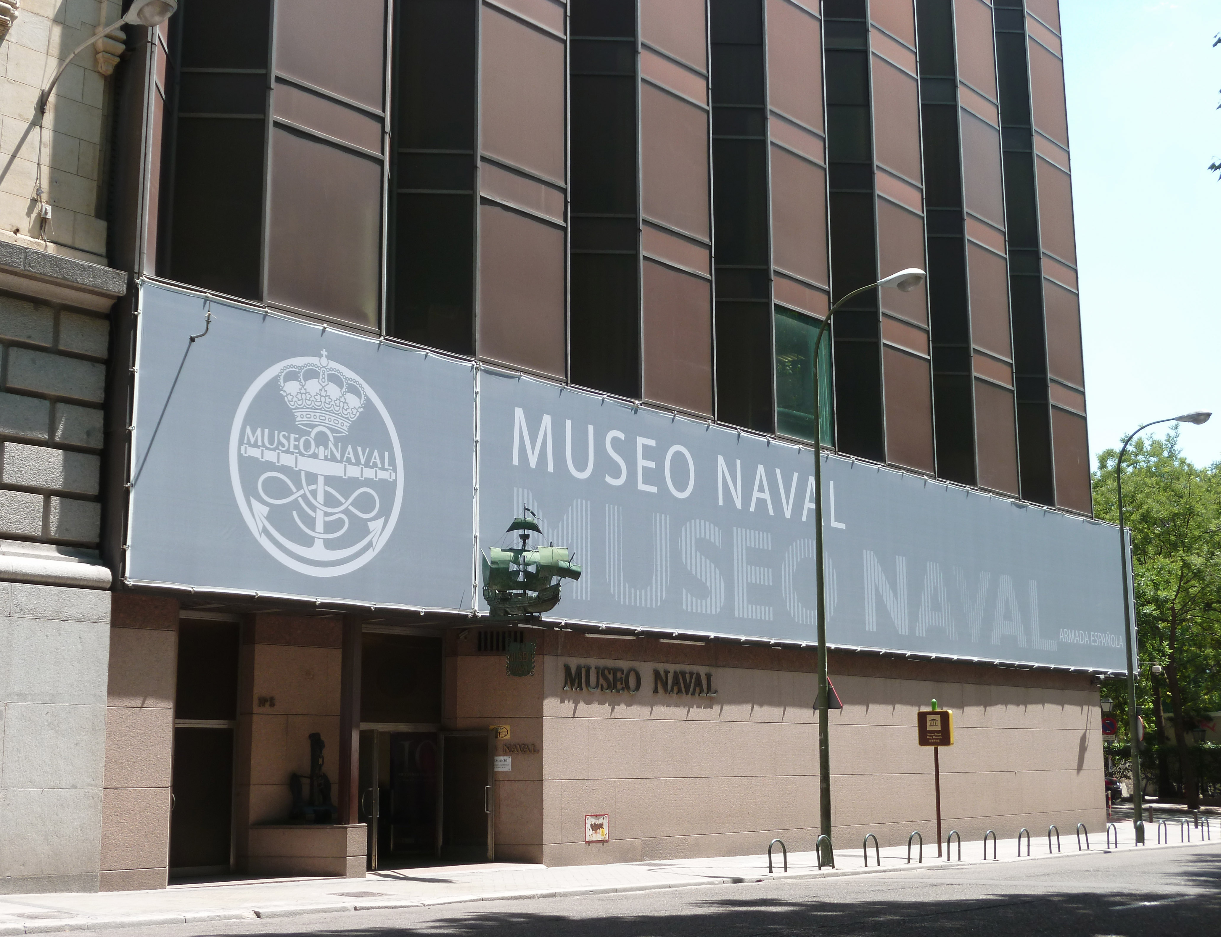 Façade of Naval Museum of Madrid (Spain).